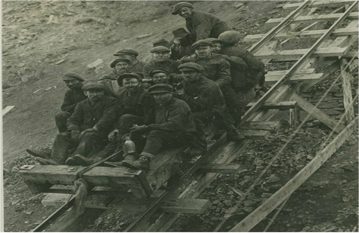 Image from the Svalbard Museum collection. The slope-train downwards from Mine 1a (Gruve 1a), from before Januar 3, 1920 (the mine exploded and was immediately closed at that date). Longyearbyen, Svalbard. Unknown Author.